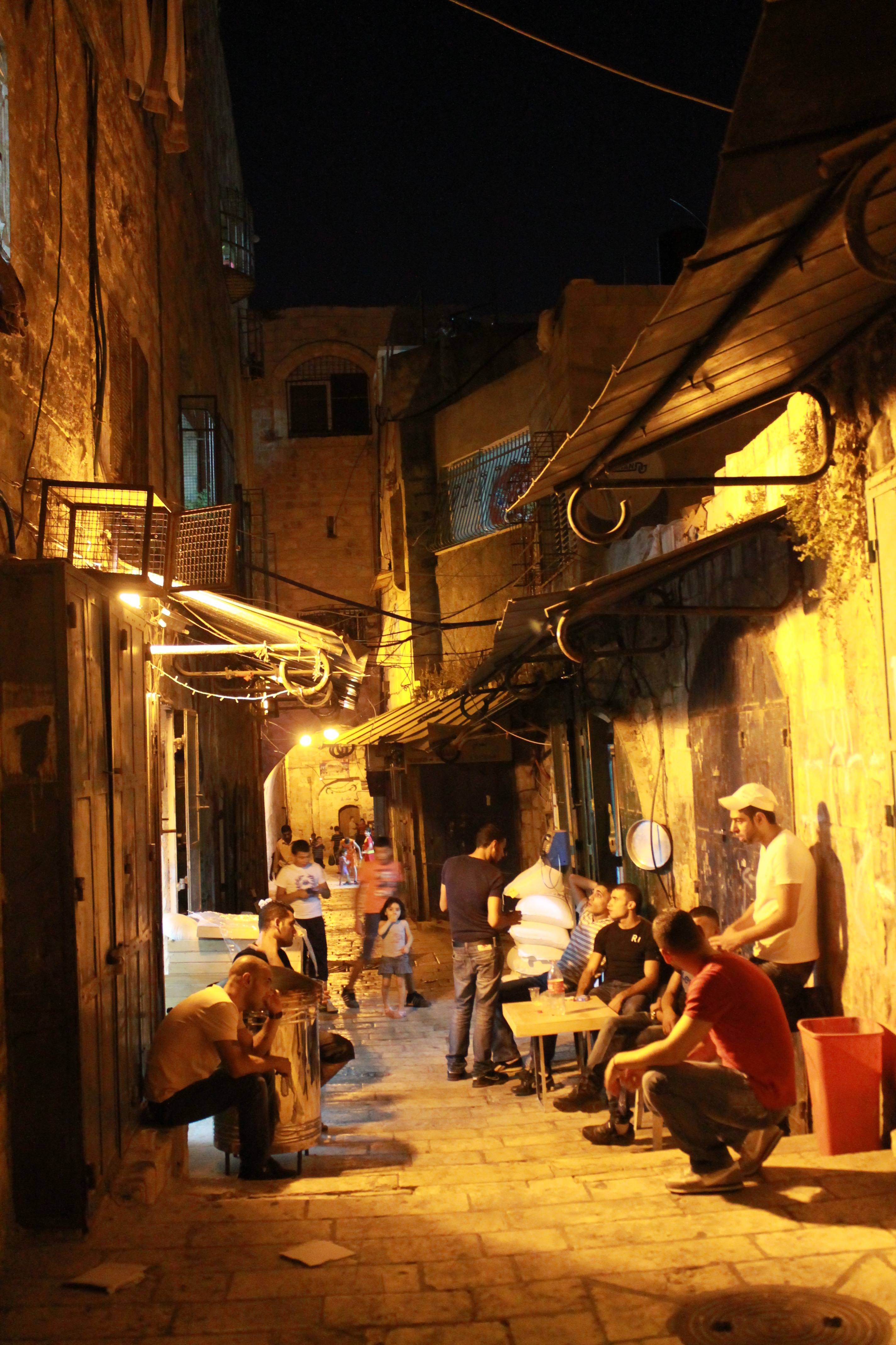 old city, jerusalem, Al-Hakkari street